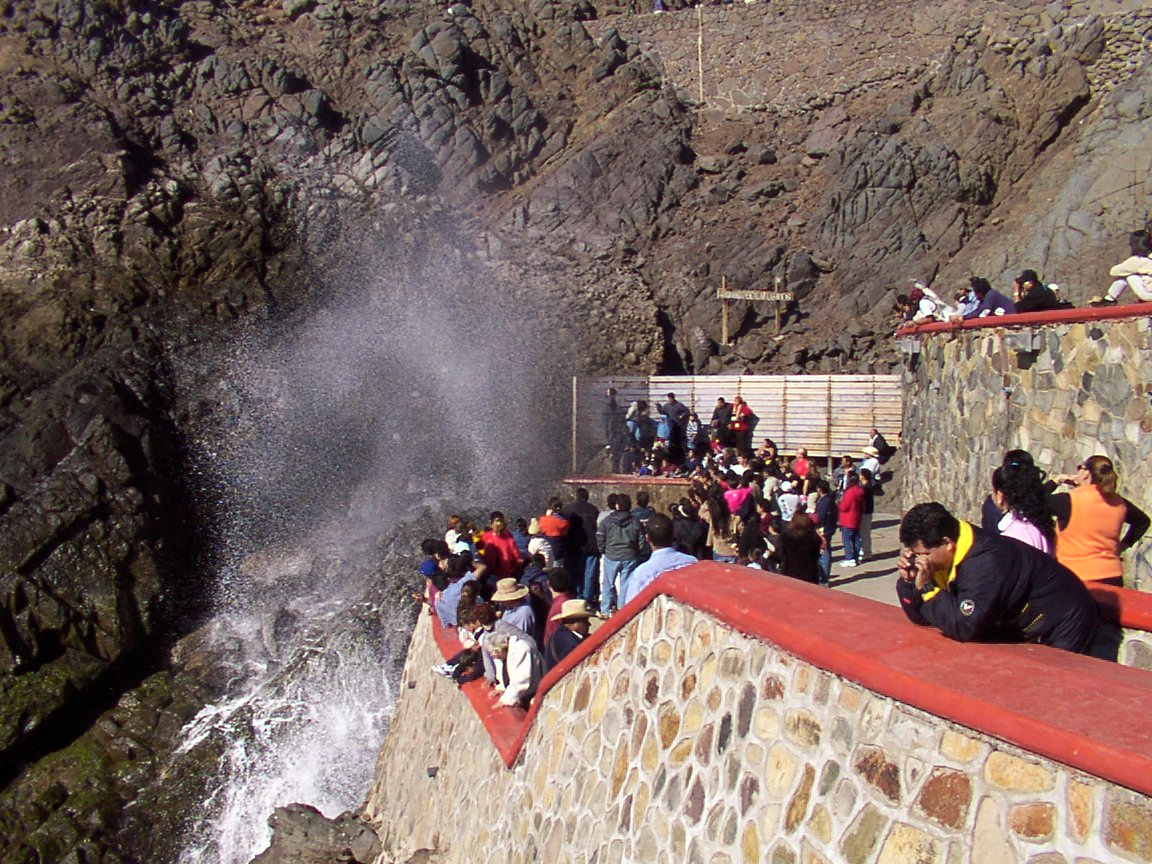 La Bufadora, a marine blowhole, popular tourist attraction south of Ensenada. Family vacation photo taken Christmas 2002.